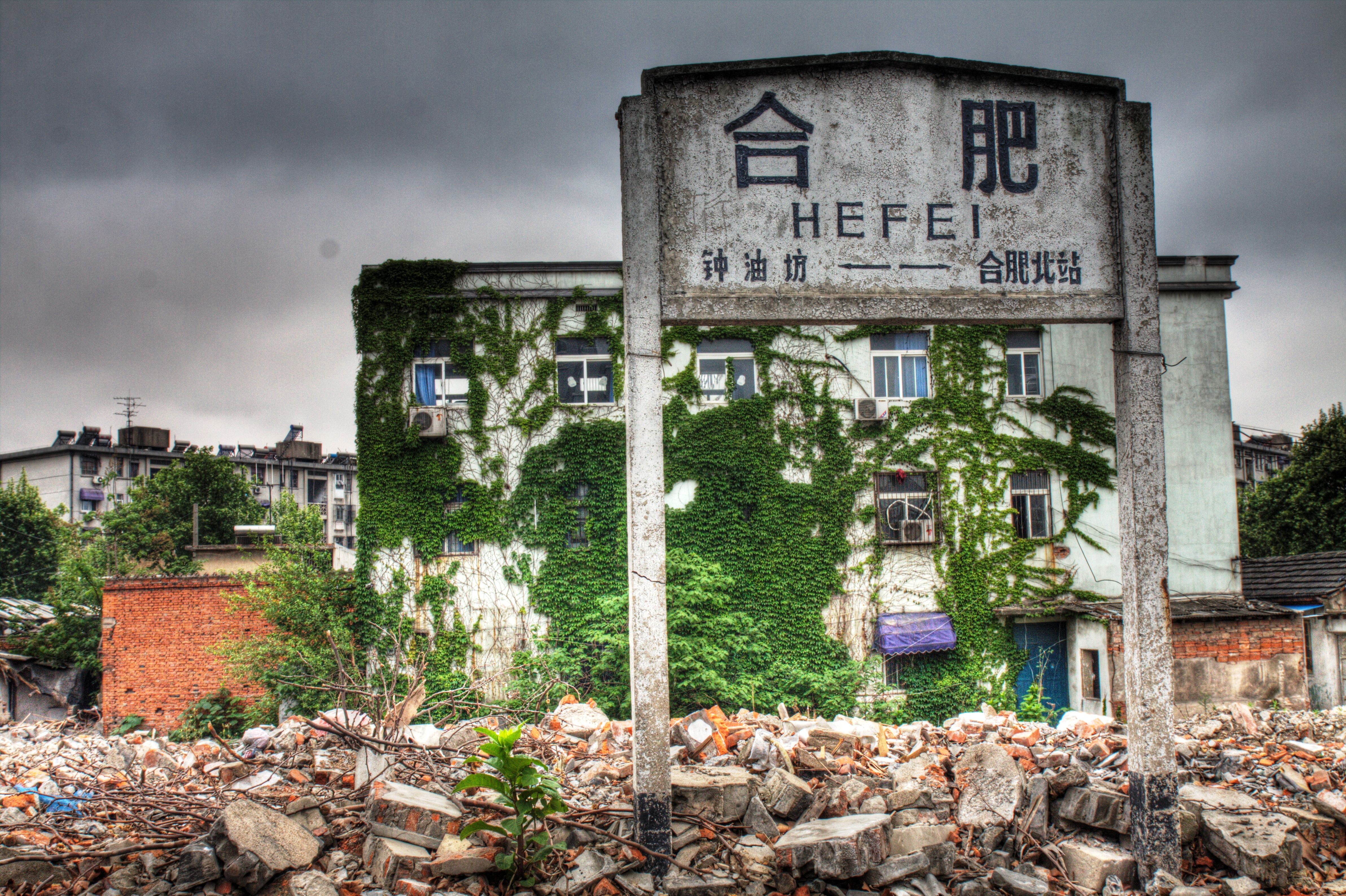 The route board of the old Hefei railway station